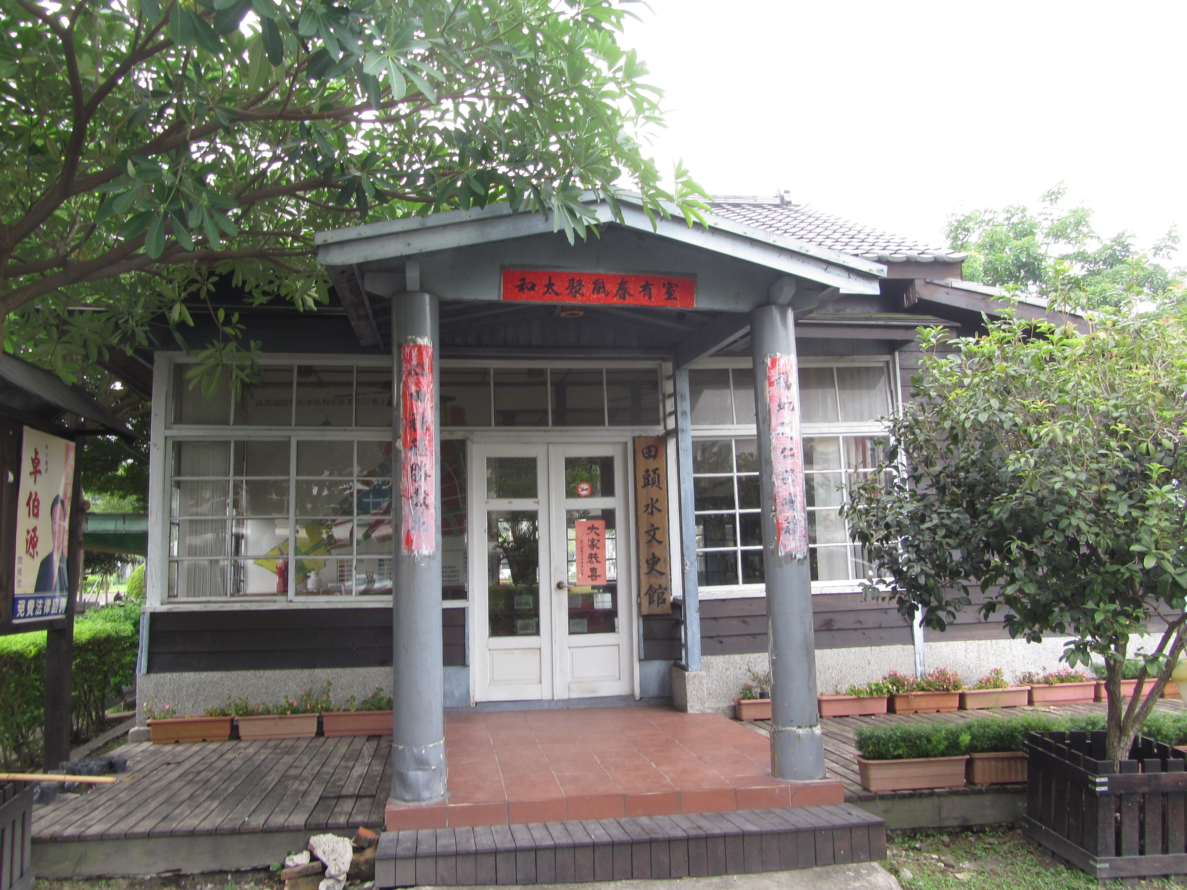 Tiantou Water Culture and History Museum